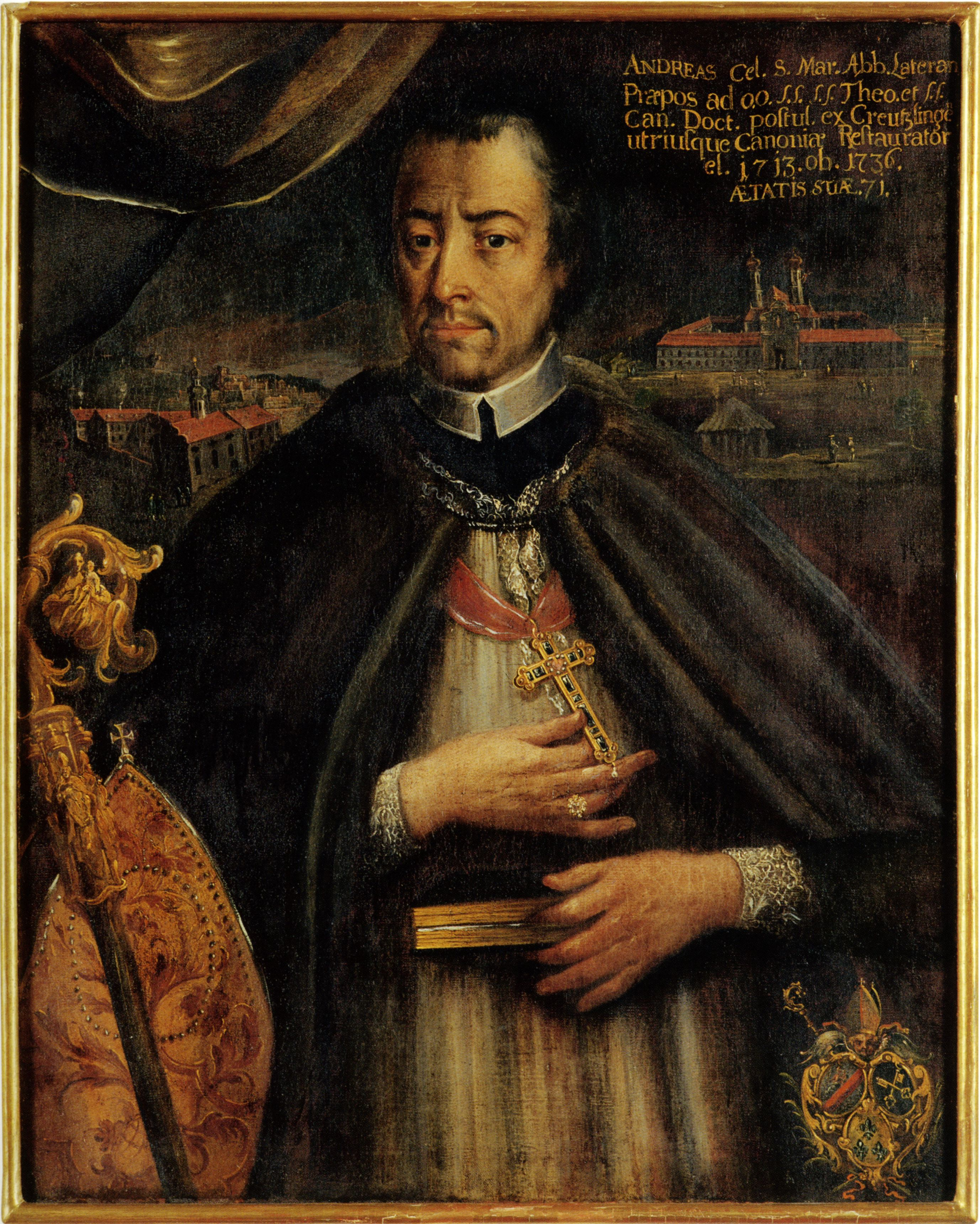 Painting showing Andreas Dilger, abbot of monastery St. Märgen, Germany, 1736